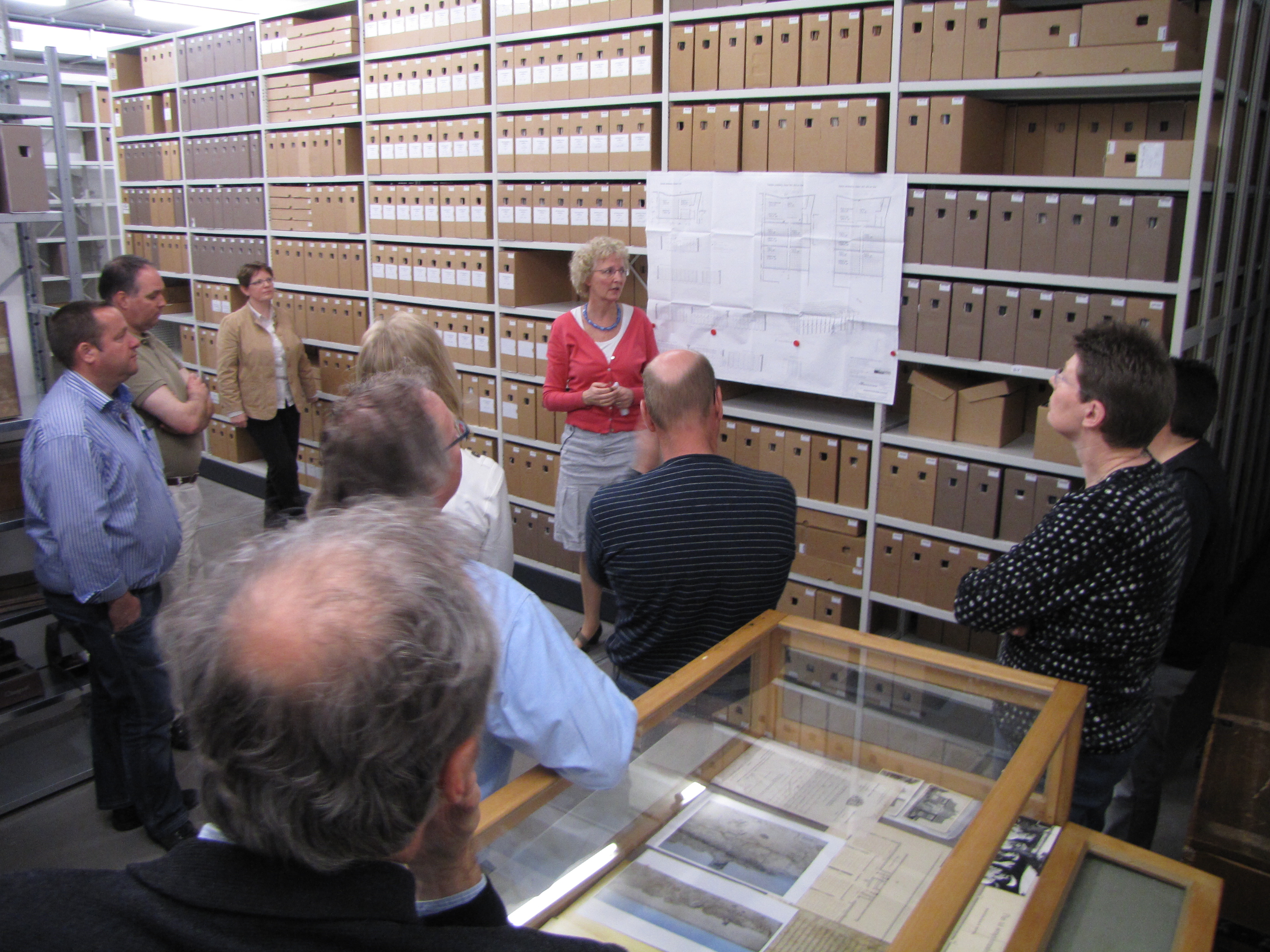 Erfgoedcentrum Achterhoek en Liemers (ECAL), regional archives in Doetinchem.